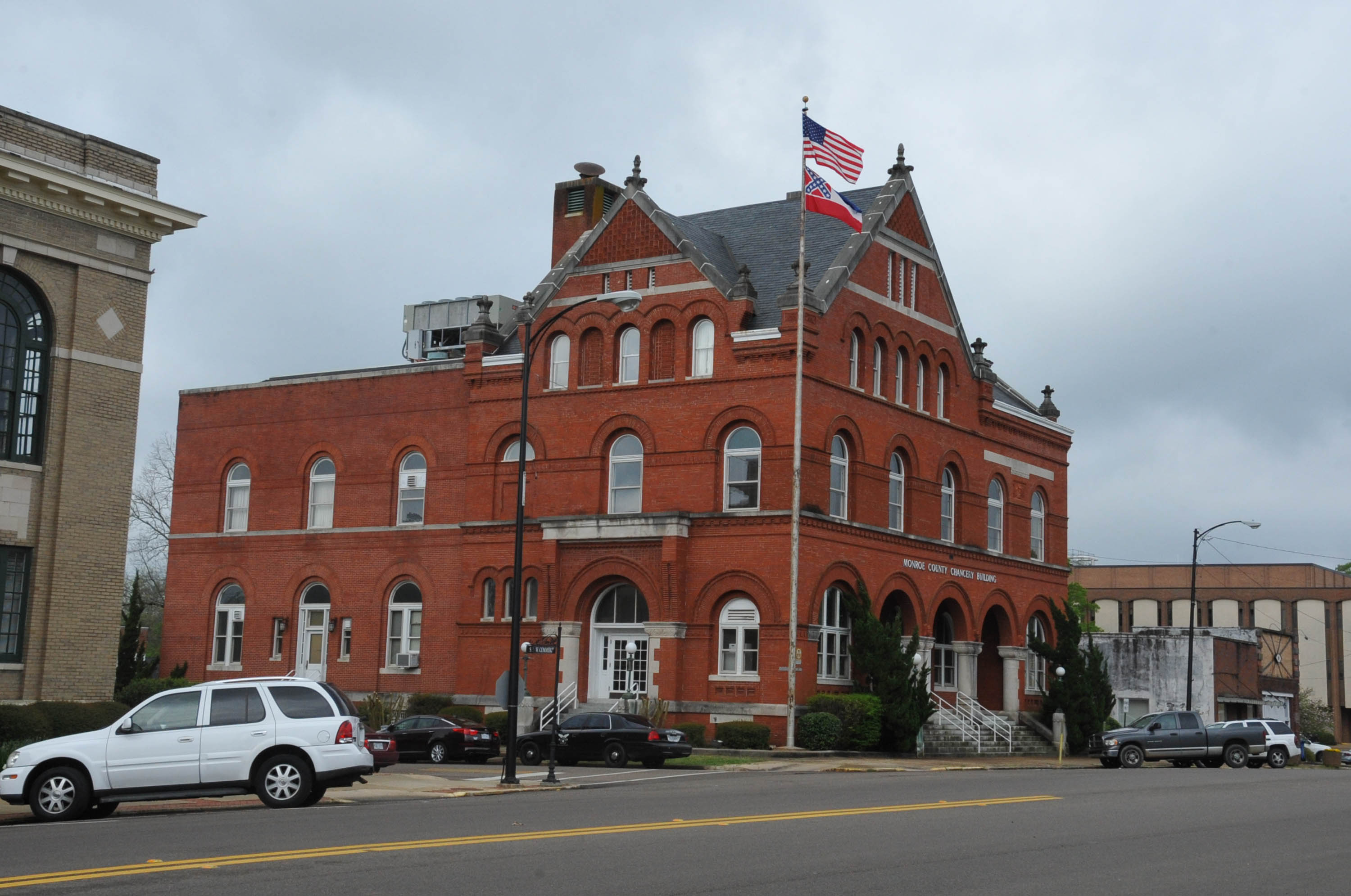 1885-1887 VICTORIAN ROMANESQUE